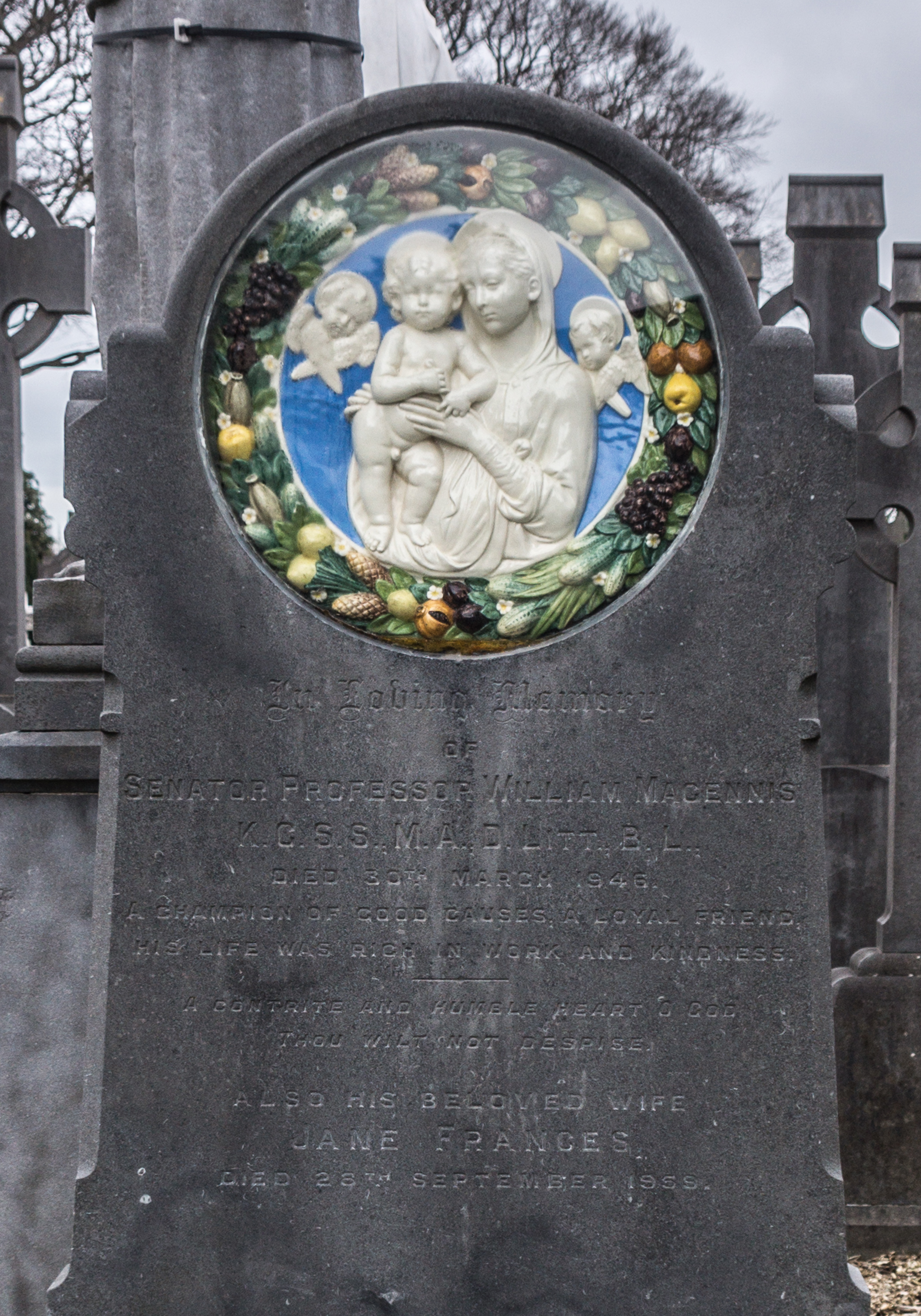 Gravestone of William Magennis in Glasnevin cemetery, Dublin